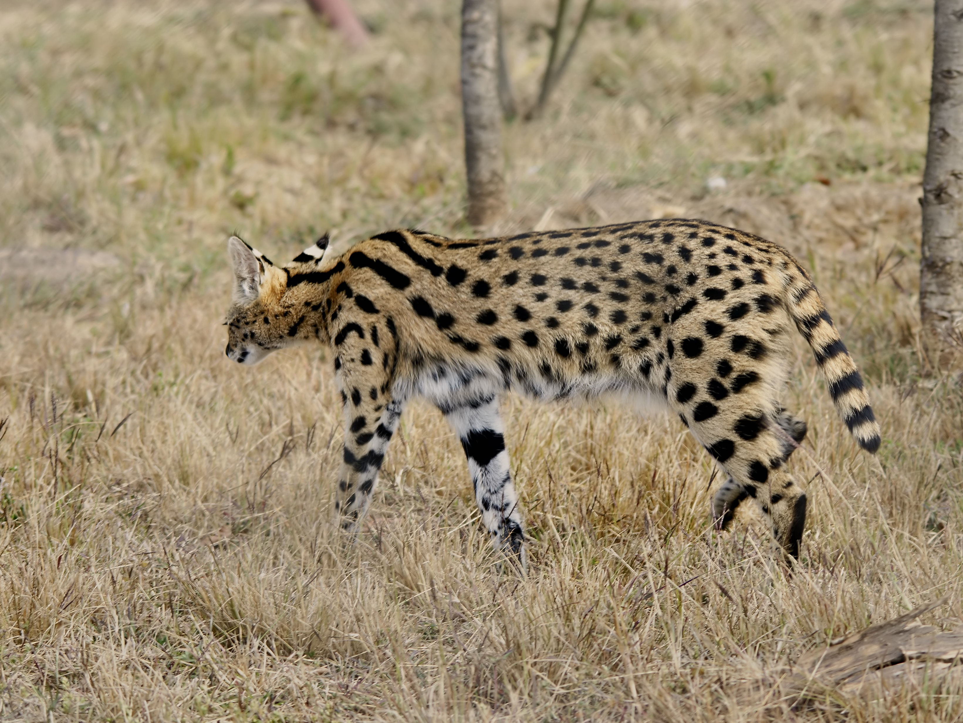 Serval at Mundawanga, Chilanga, Zambia.